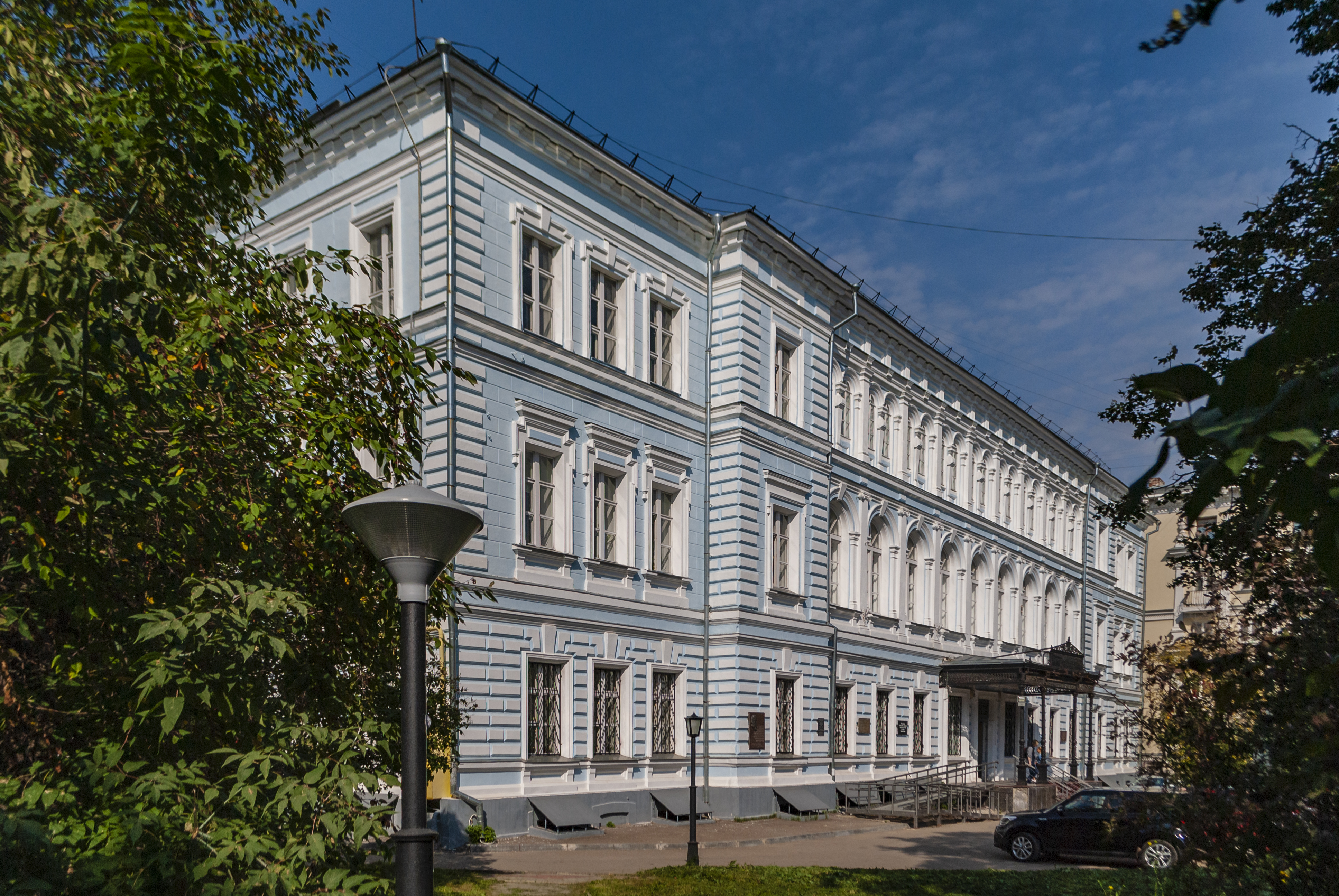 Lobachevsky University. Faculty of Philology. Bolshaya Pokrovskaya Street, Nizhny Novgorod